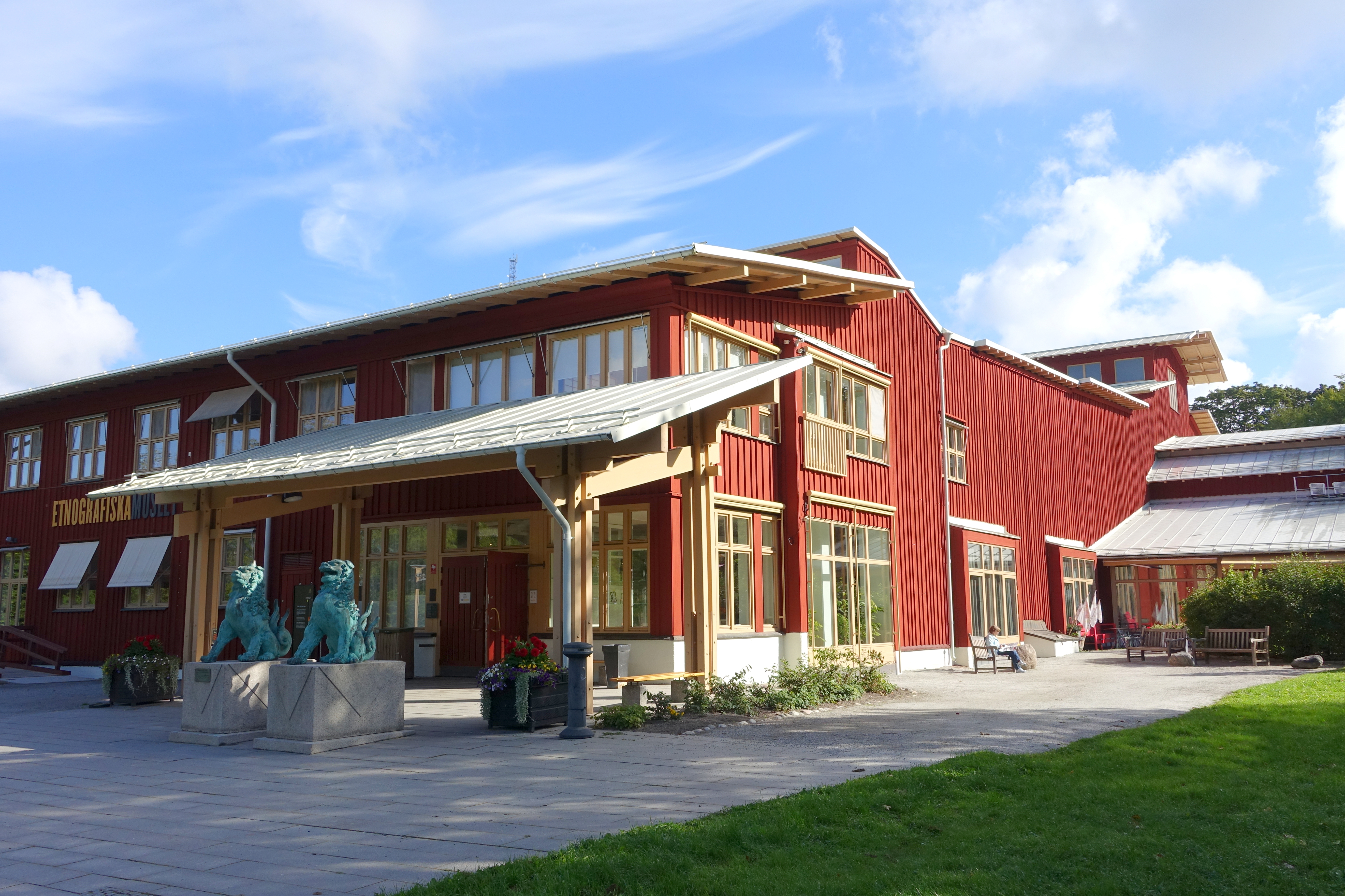 Exterior of the Etnografiska museet - Stockholm, Sweden.